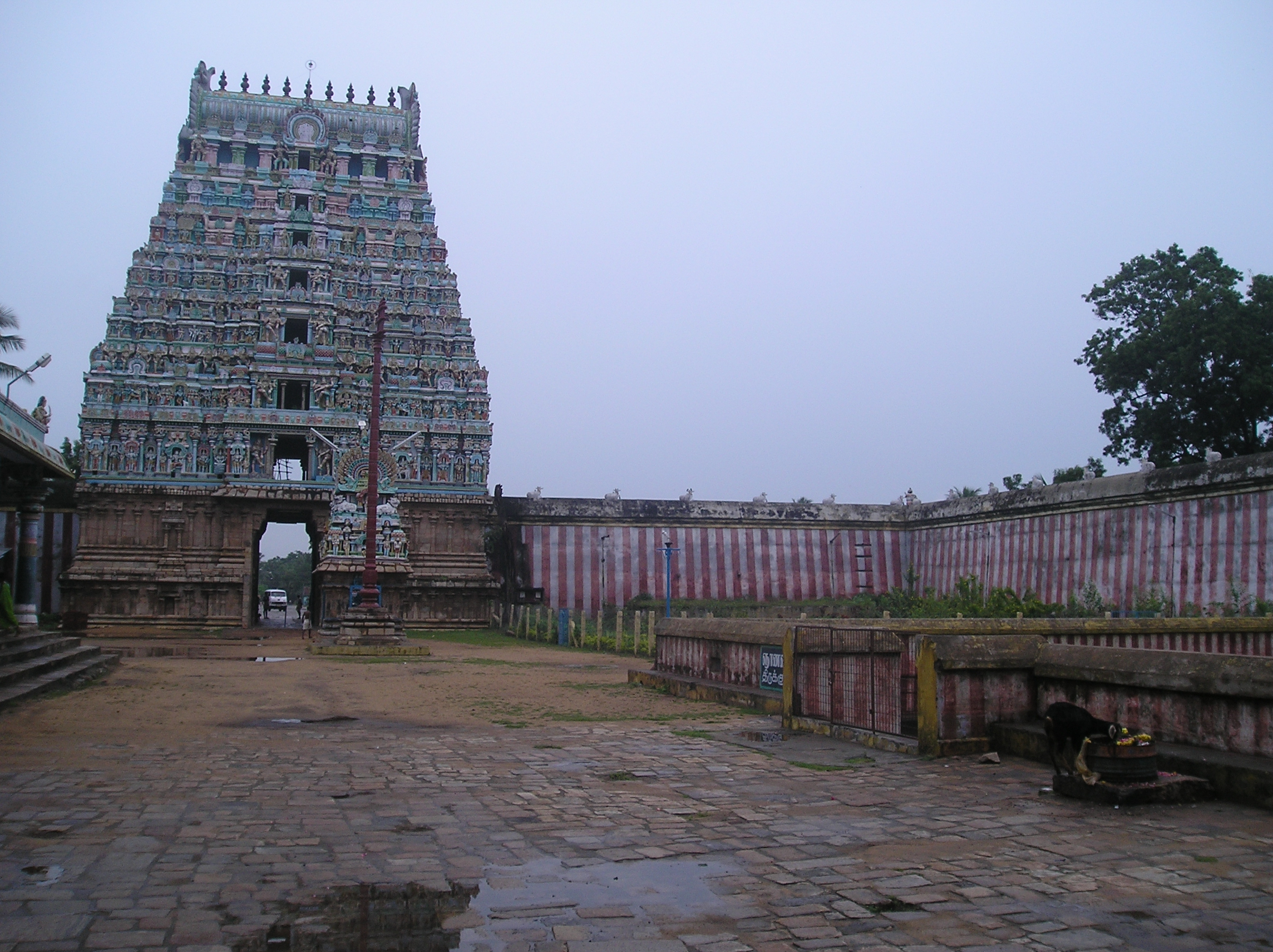 Patteswaram grand temple